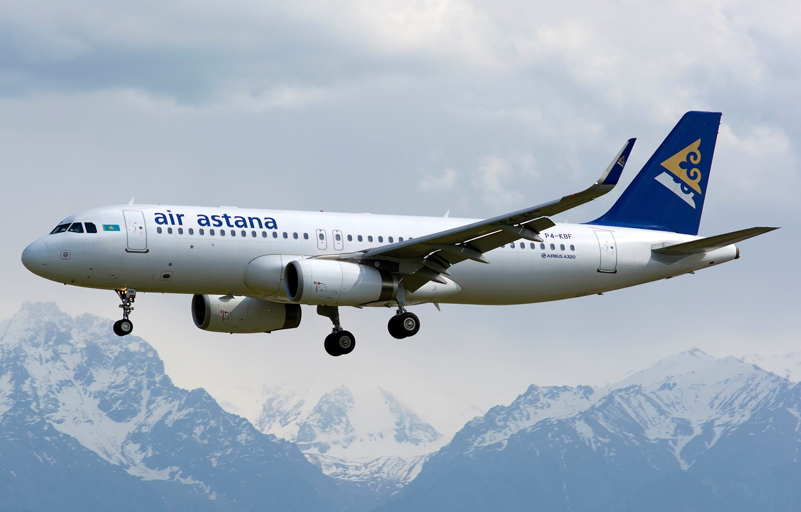 Landing to RW05R at Almaty Airport